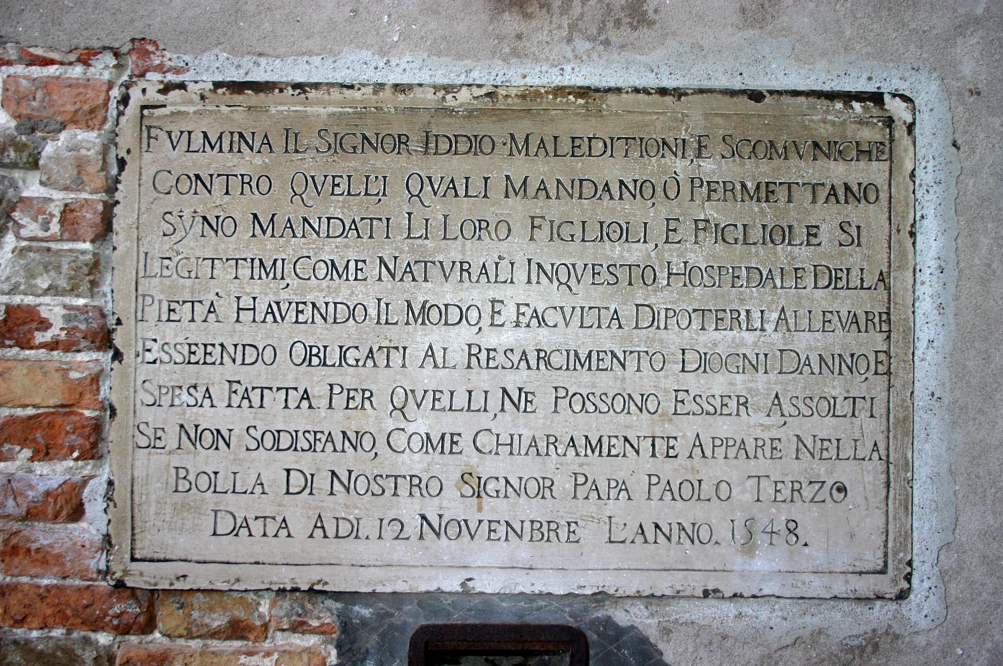 Corner of the orphanage of the Chiesa della Pietà in Venice where the foundling wheel once stood. The inscription declares, citing a 12 November 1548 papal bull of Paul III, that God inflicts "maledictions and excommunications" on all who abandon a child of theirs whom they have the means to rear, and that they cannot be absolved unless they first refund all expenses incurred.